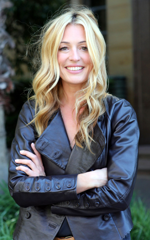 Cat Deeley: So You Think You Can Dance star does Sydney 2011.